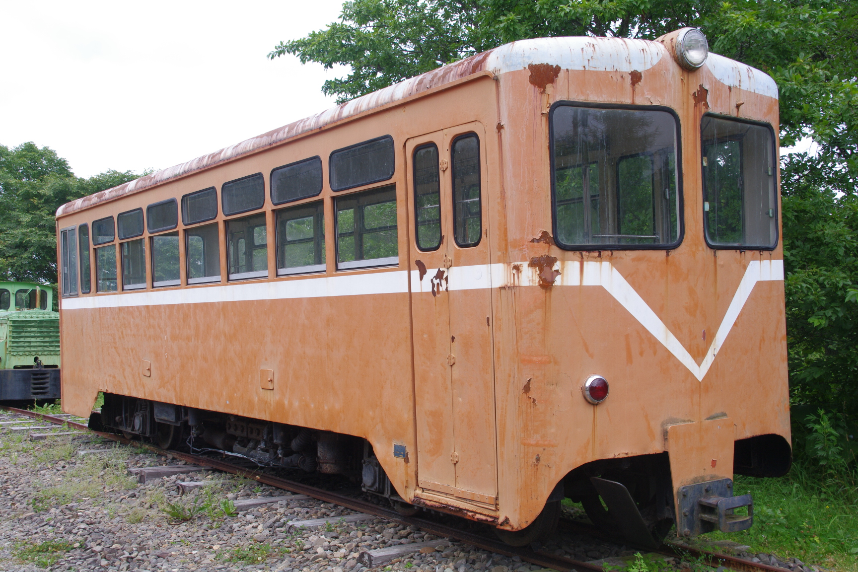 Bekkai Municipal Railway (Bekkai Son-ei Kido) diesel multiple unit preserved at Okuyukiusu Station